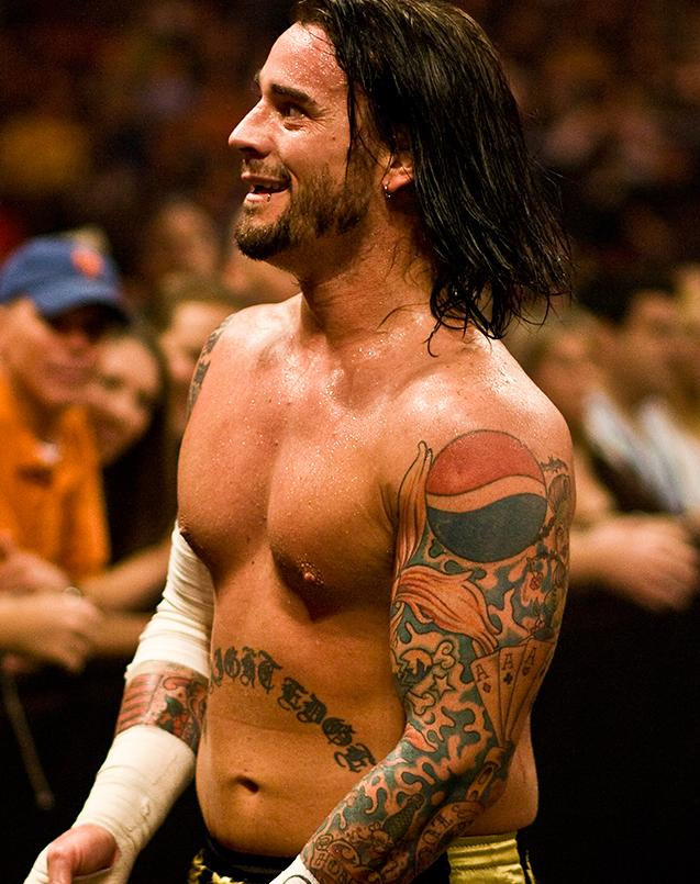 CM Punk WWE Monday Night Raw 800th Tampa